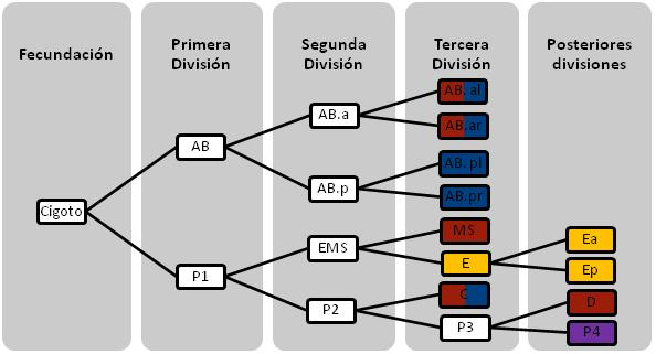 Las primeras tres divisiones producen los linajes AB, C, MS y E. Los colores muestran las estructuras que se formarán a partir de cada uno de los linajes: Azul es hipodermis y neuronas (ectodermo), Rojo es Faringe, músculo y gónadas (mesodermo), Amarillo es intestino (endodermo) y Morado es línea germinal. Todas estas células descendientes suman un total de 558 células en el primer estado larval (Gilbert, 2005).